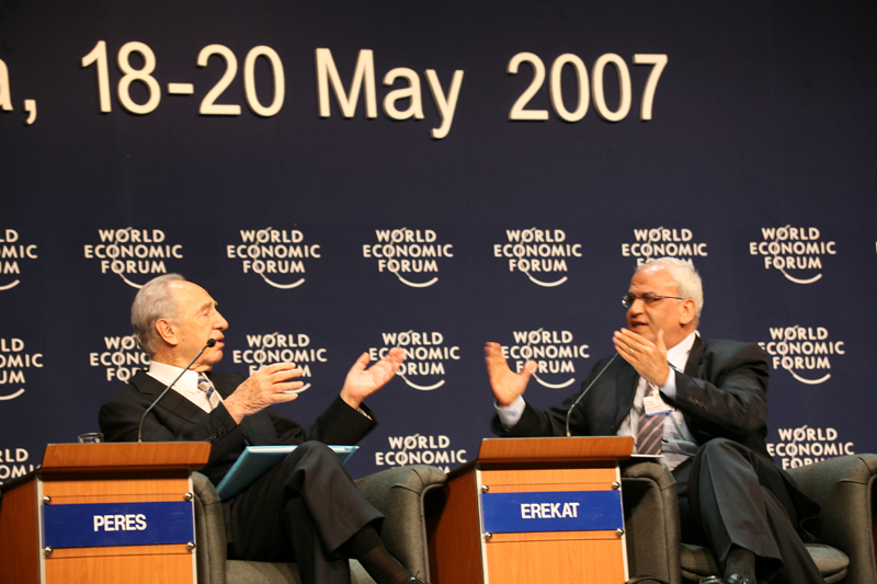 Shimon Peres, Saeb Erekat captured at a session at the World Economic Forum on the Middle East held at the Dead Sea in Jordan 18-20 May 2007. Copyright World Economic Forum (